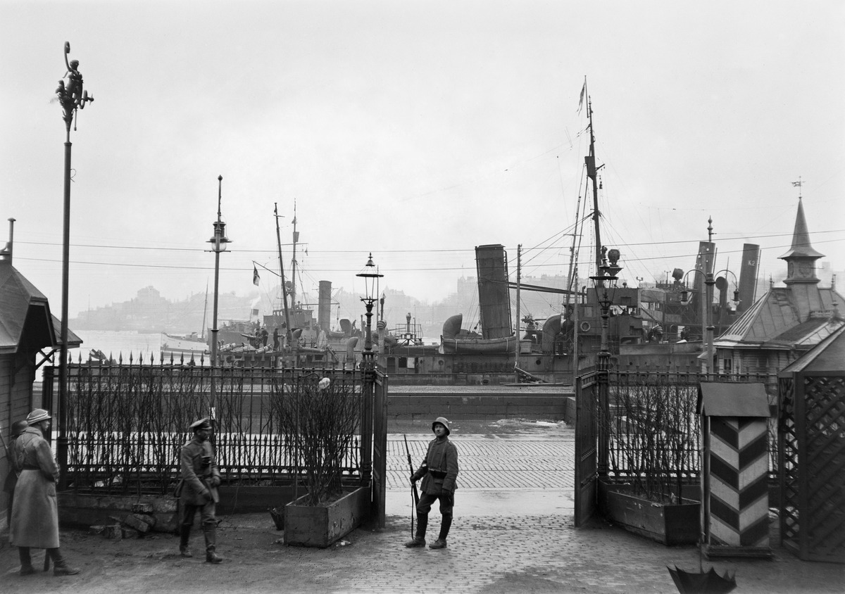 German guard at the gate of the Imperial Palace (today the Presidential Palace) after the 1918 Finnish Civil War Battle of Helsinki.